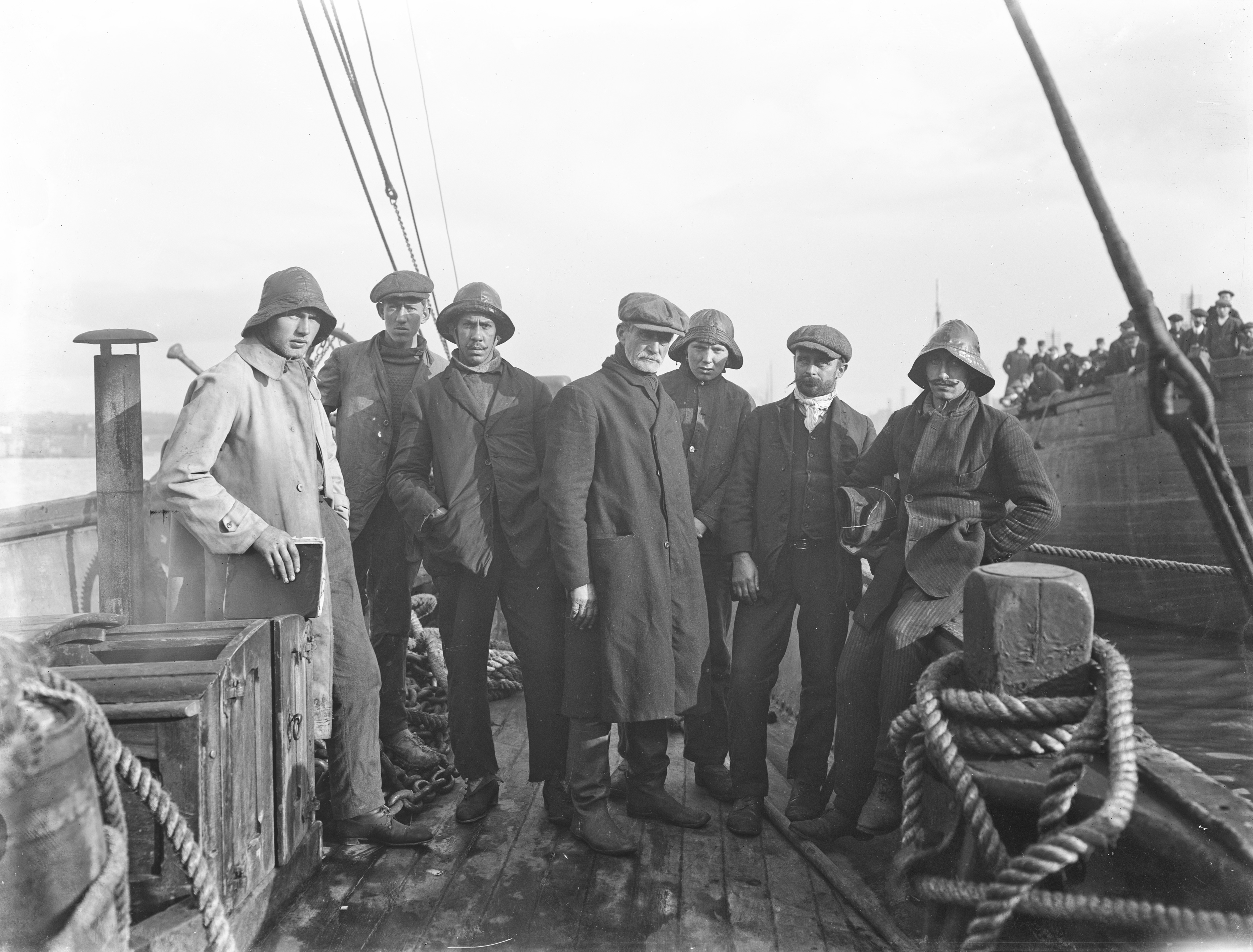 These are the crew members of a Norwegian vessel, who survived what is known as the Fethard Lifeboat Disaster. These men were on board their vessel, The Mexico (with its cargo of mahogany and cedar from Mexico), when it ran aground on the Keragh Islands, Co. Wexford on Friday, 20 February 1914. The Fethard Lifeboat, Helen Blake, came to their rescue through a storm was destroyed with the loss of 9 of the 14 lifeboatmen. For those of you wanting to know more about this disaster, Niall McAuley provided a link to this PDF recounting the whole story, and a tentative identification of the older sailor in the middle as the captain of The Mexico, Ole Edvin Eriksen, of Frederikshald, Norway... Fairly happy now that this photo was taken at Waterford, thanks to John Spooner's contribution from a report in The Times of 24 February that said: "The tug with the nine men on board and the body of the man who had died on the island arrived at Waterford at 4 o'clock. A great crowd assembled on the quays to welcome the rescuers." Date: Tuesday, 24 February 1914 NLI Ref.: P_WP_2536